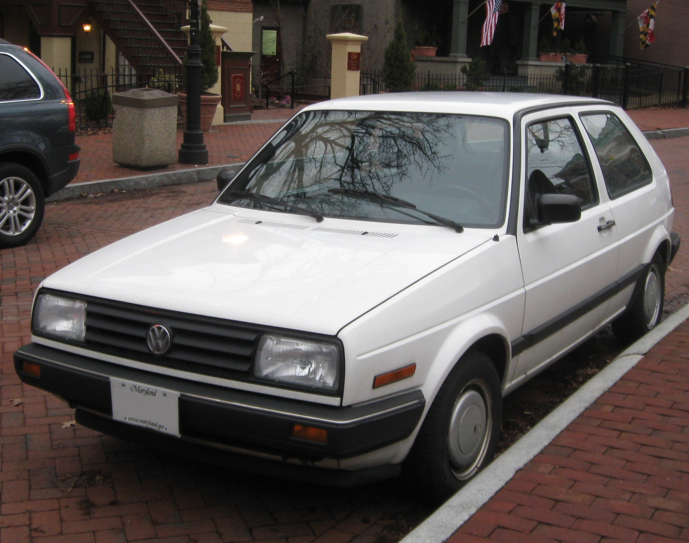 1988-1989 Volkswagen Golf photographed in Annapolis, Maryland, USA.